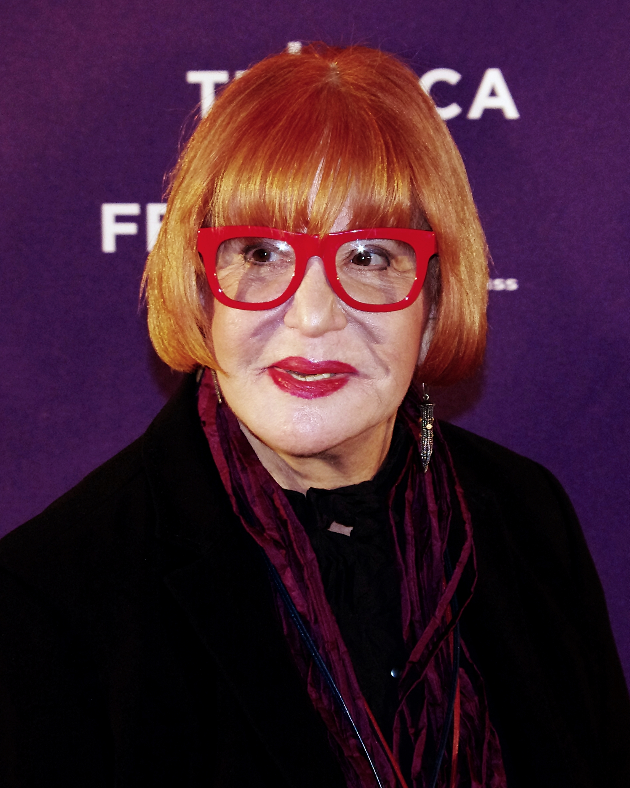 Sally Jesse Raphael at the 2012 Tribeca Film Festival world premiere of Evocateur: The Morton Downey Jr. Movie.